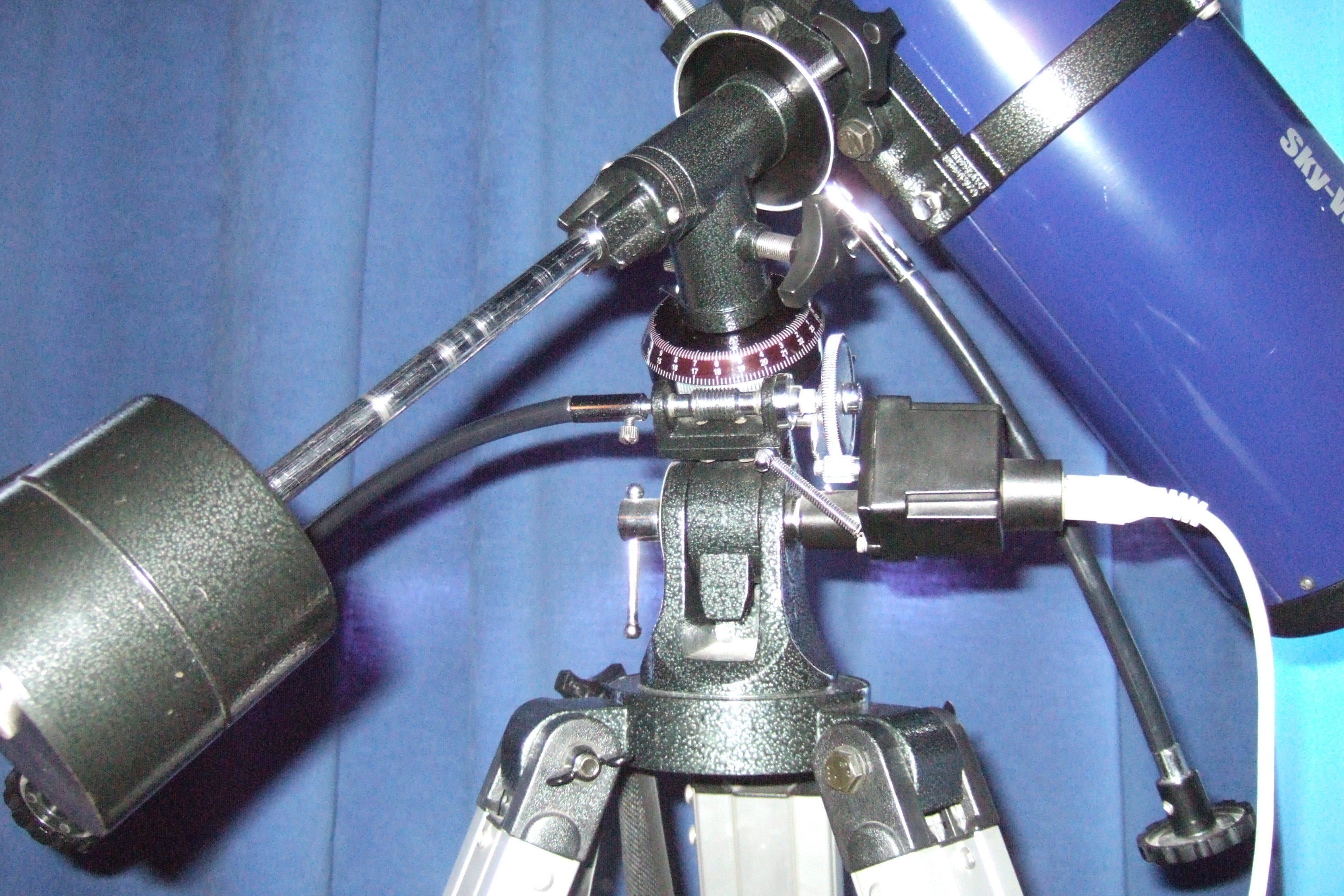 An Orion EQ-2 equatorial mount.